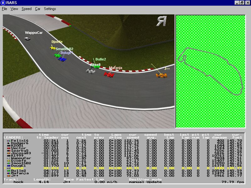 We see robots trying to overtake. Overtaking was one of the most challenging part of the competition. Touching another car meant in most case, a car accident and going off the road.